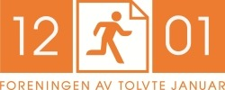 Corporate logo